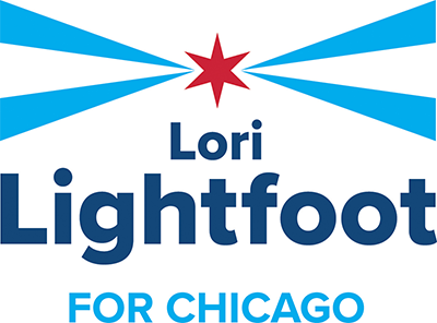 Lori Lightfoot for Chicago